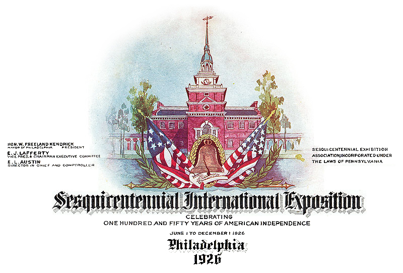 1926 Sesquicentennial International Exposition logo, Philadelphia, PA (scanned from letterhead).